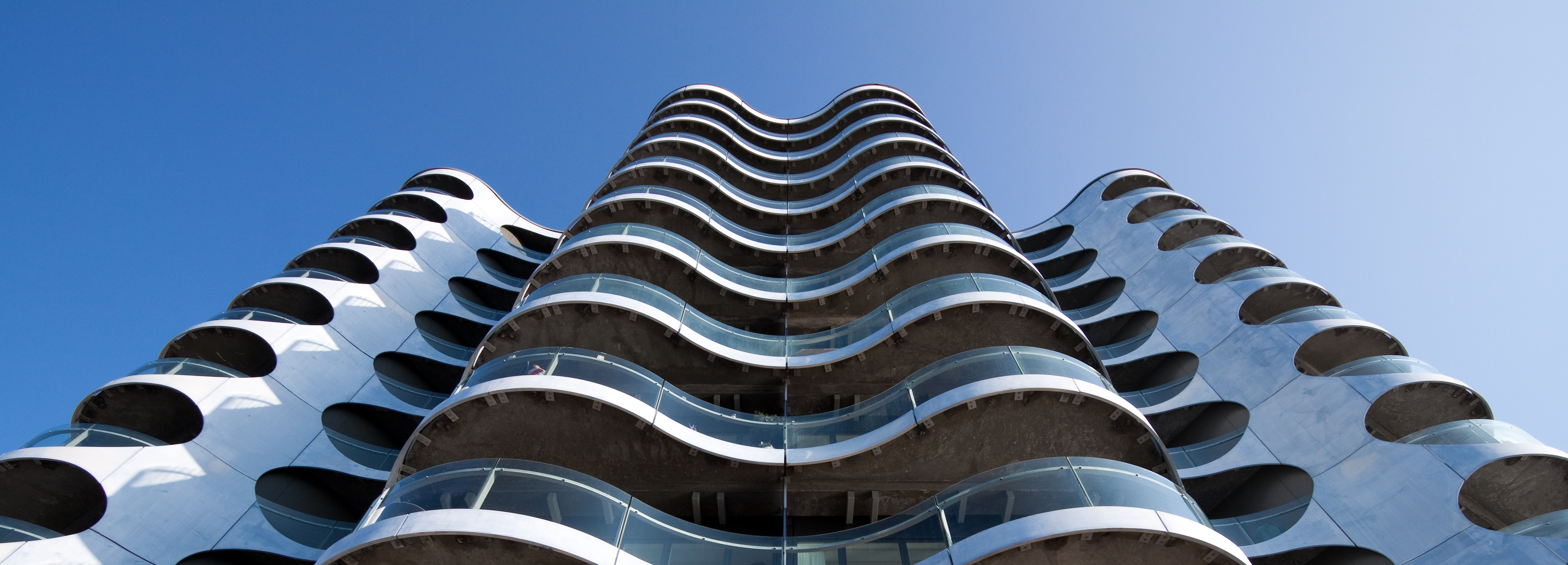 Vuew up the Metropolis building at Sluseholmen in Southern Docklands of Copenhagen, Denmark. The building is designed by the defunct London-based architecture studio Future Systems